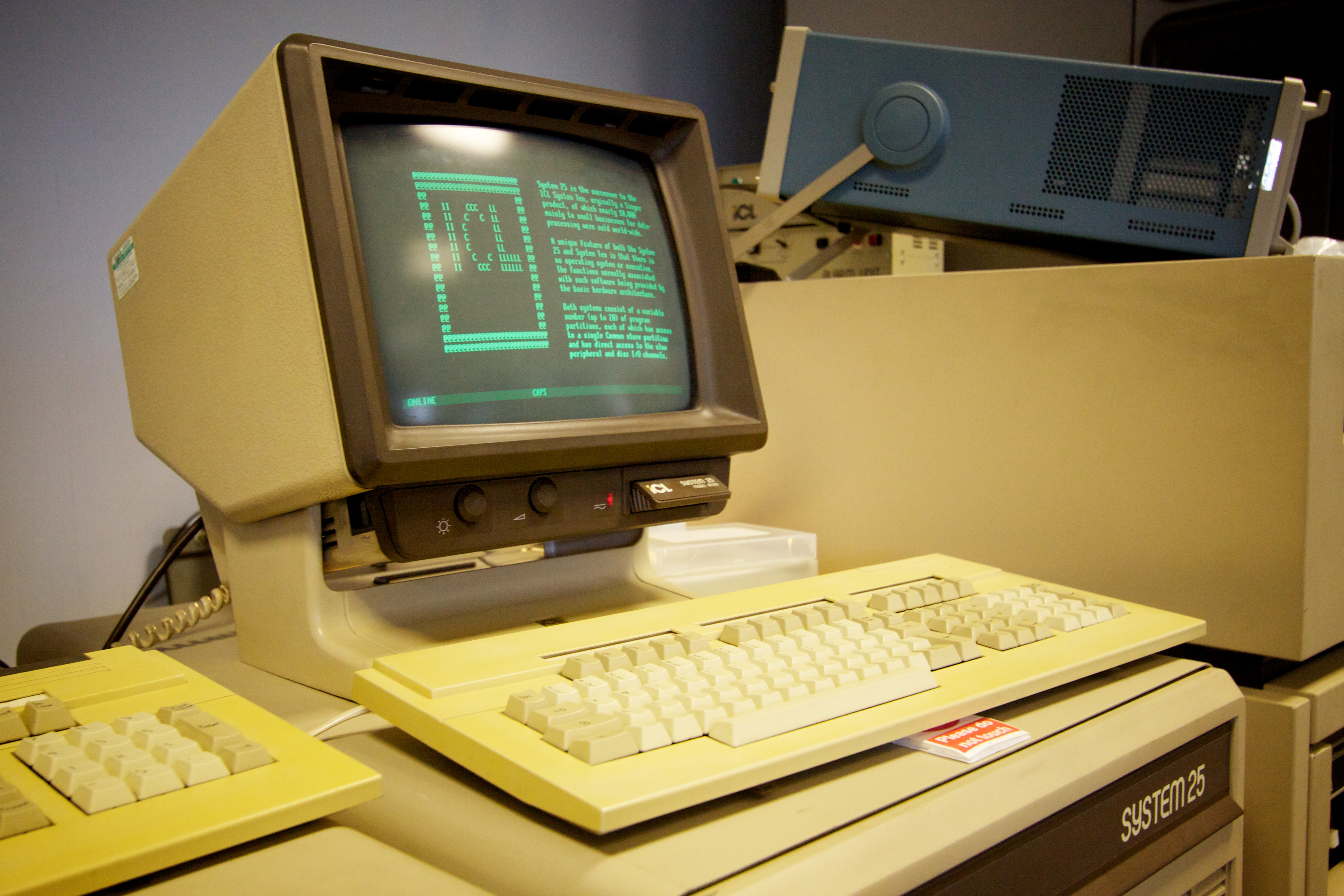 ICL System 25 photographed at The National Museum of Computing, Bletchley, UK.